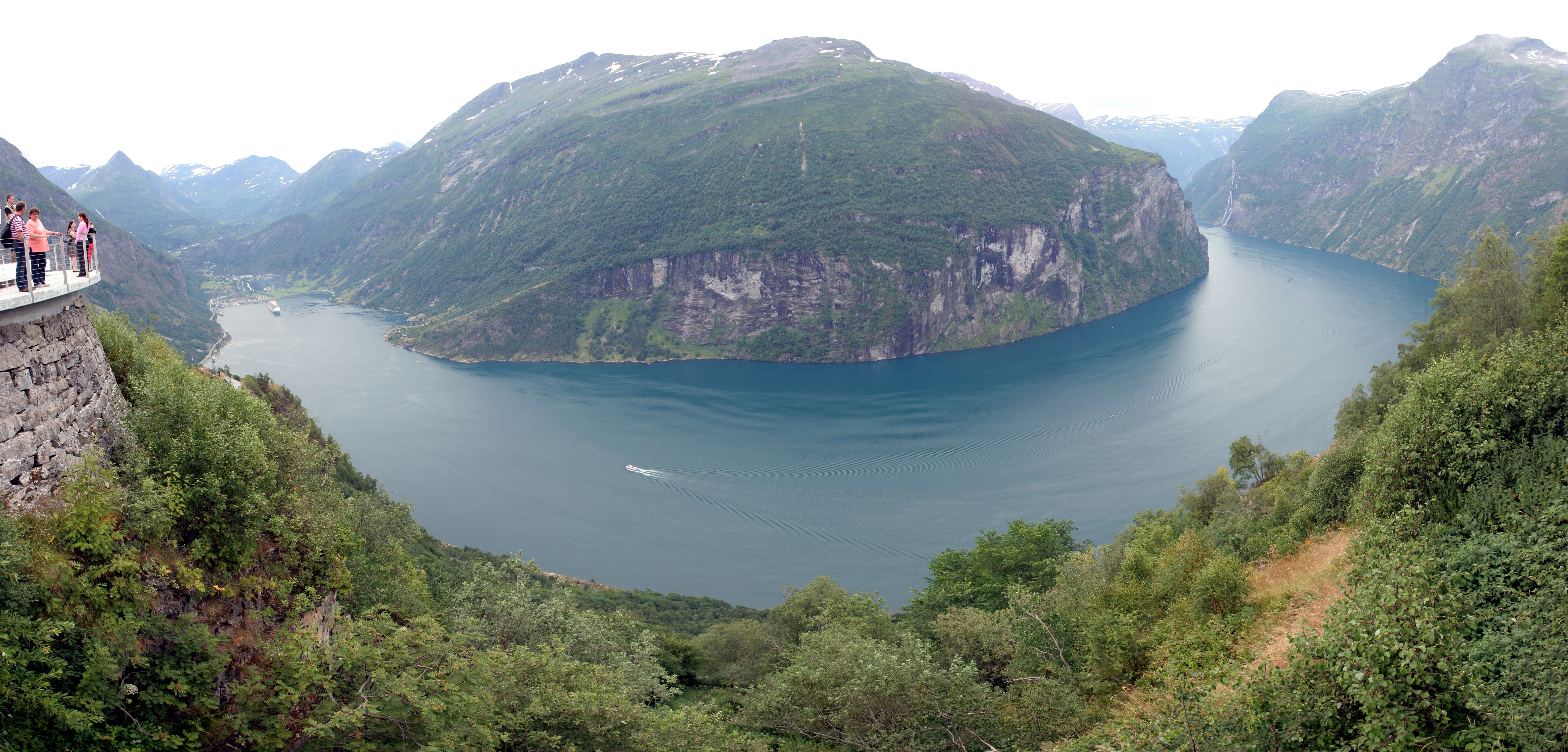 no: Geirangerfjorden sett frå Ørnevegen. Geiranger inst i fjorden til venstre, fossen Dei sju systre til høgre i biletet. Seen from Ornevegen (the Eagles Road), Norway It's a fjord, so it's at sea level. 16 tiles assembled with Hugin, equirectangular projection, H:146° V:70° This is a little amuse-bouche for you till I sort the huge bunch of pictures I took there.